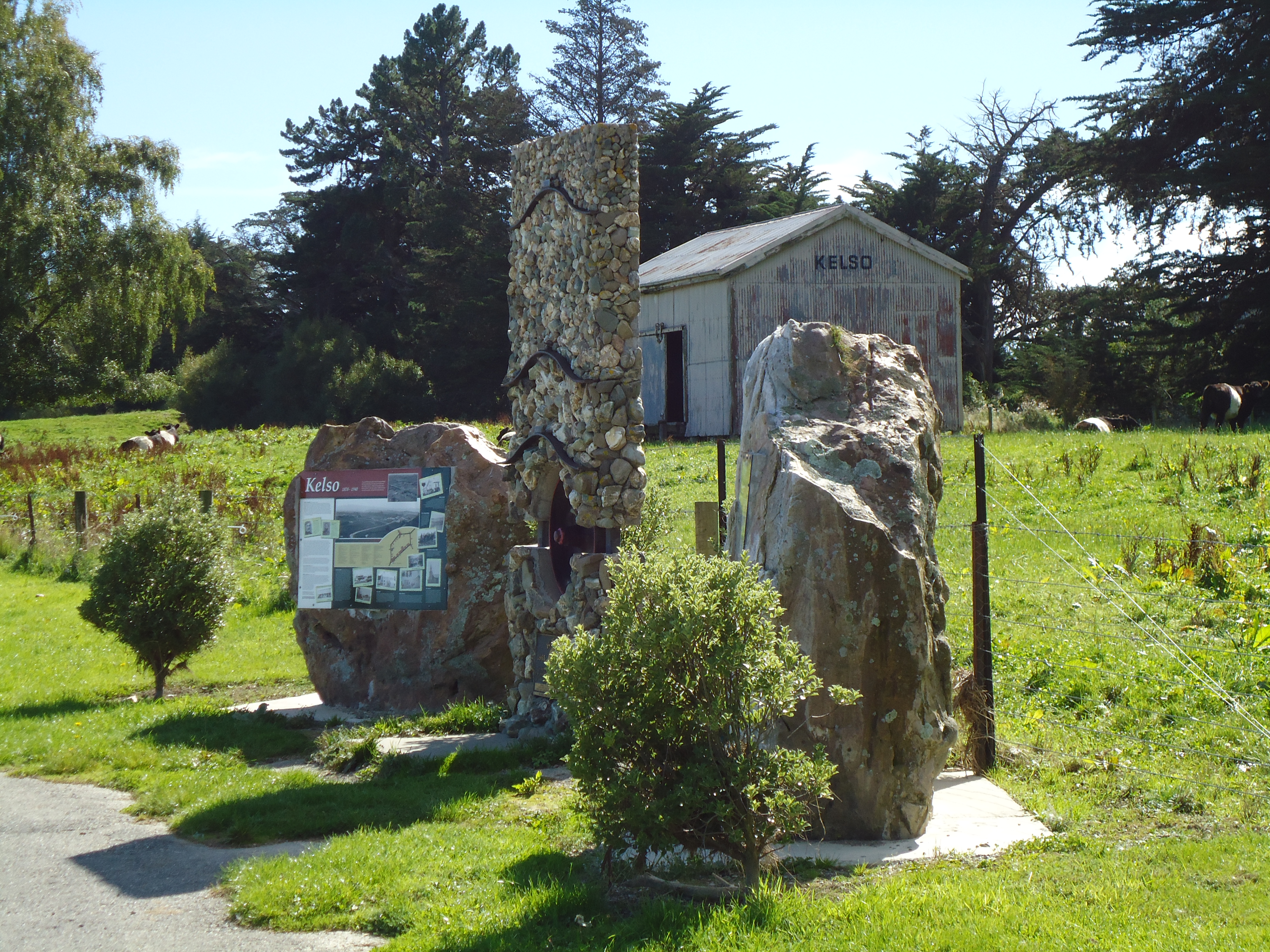 Monument on the former site of Kelso, New Zealand, "the town that drowned". Old railway shed in background